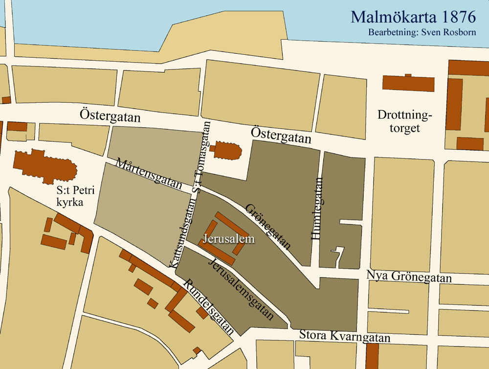 Map of Caroli City, a part of the old town i Malmö, Sweden.